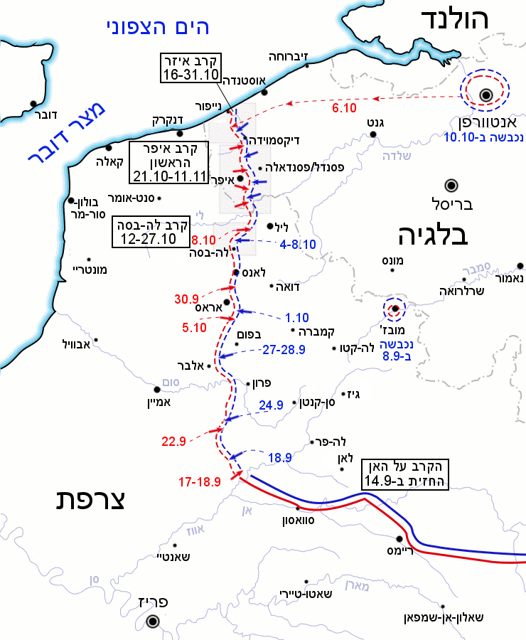 based on file:Race to the Sea 1914.png